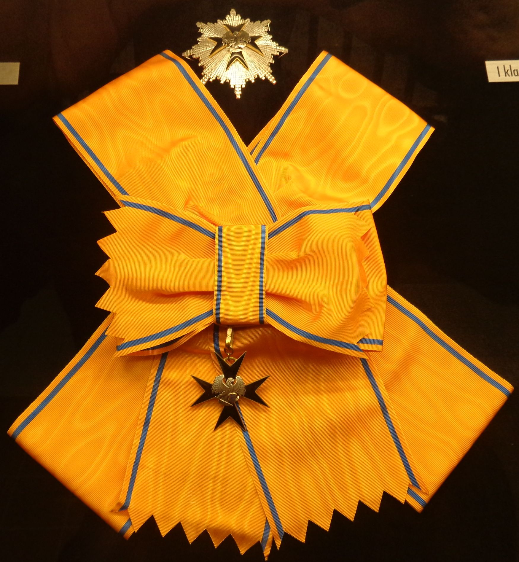 Estonia. Order of the Cross of the Eagle 1st class; badge, breaststar and sash. The exhibition of the Estonian State Decorations at the National Library of Estonia in Tallinn.